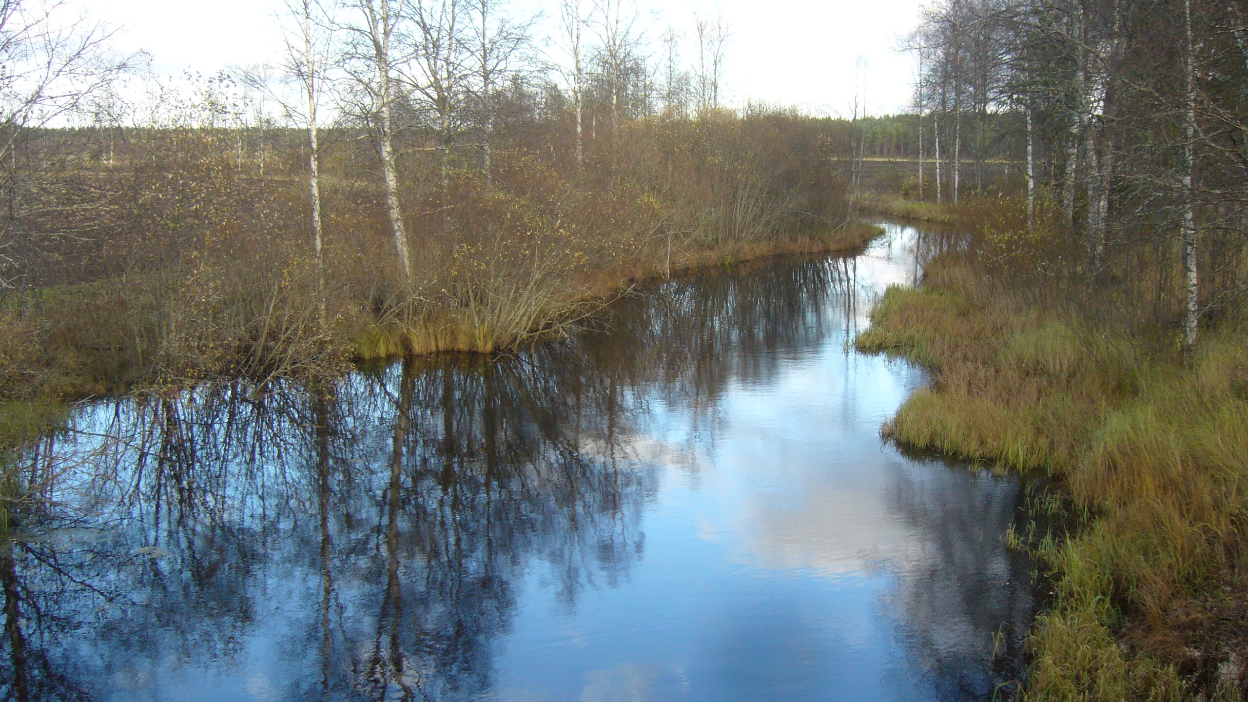 Kattilajoki river in Karvia, Finland.